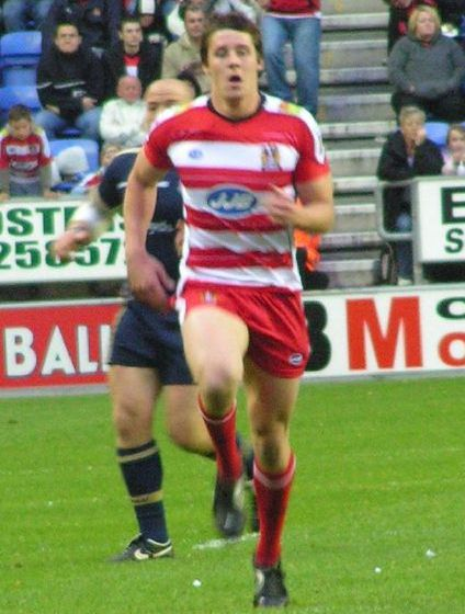 Joel Tomkins